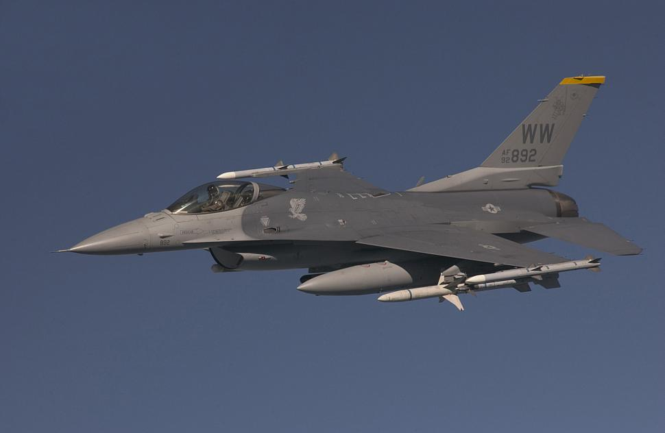 USAF F-16C block 50 #92-3892 from the 14th FS conducts a mission during a training exercise held at Eielson AFB on July 24th, 2006. [USAF photo by SMSgt. Jeff Rohloff]